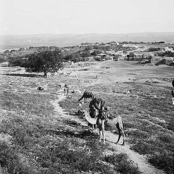 Cropped view from the Matson collection